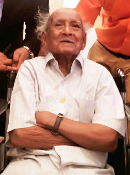 Dinu Randive, a veteran journalist from Maharashtra, India